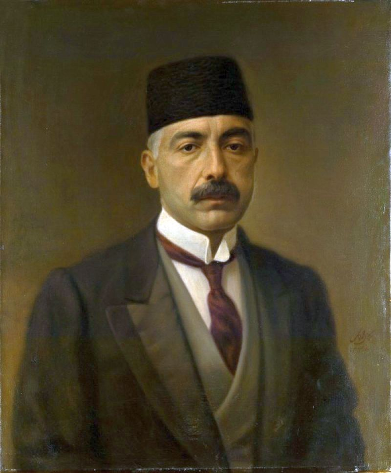 Painting of Vosough od-Dowleh by Kamal-ol-molk.